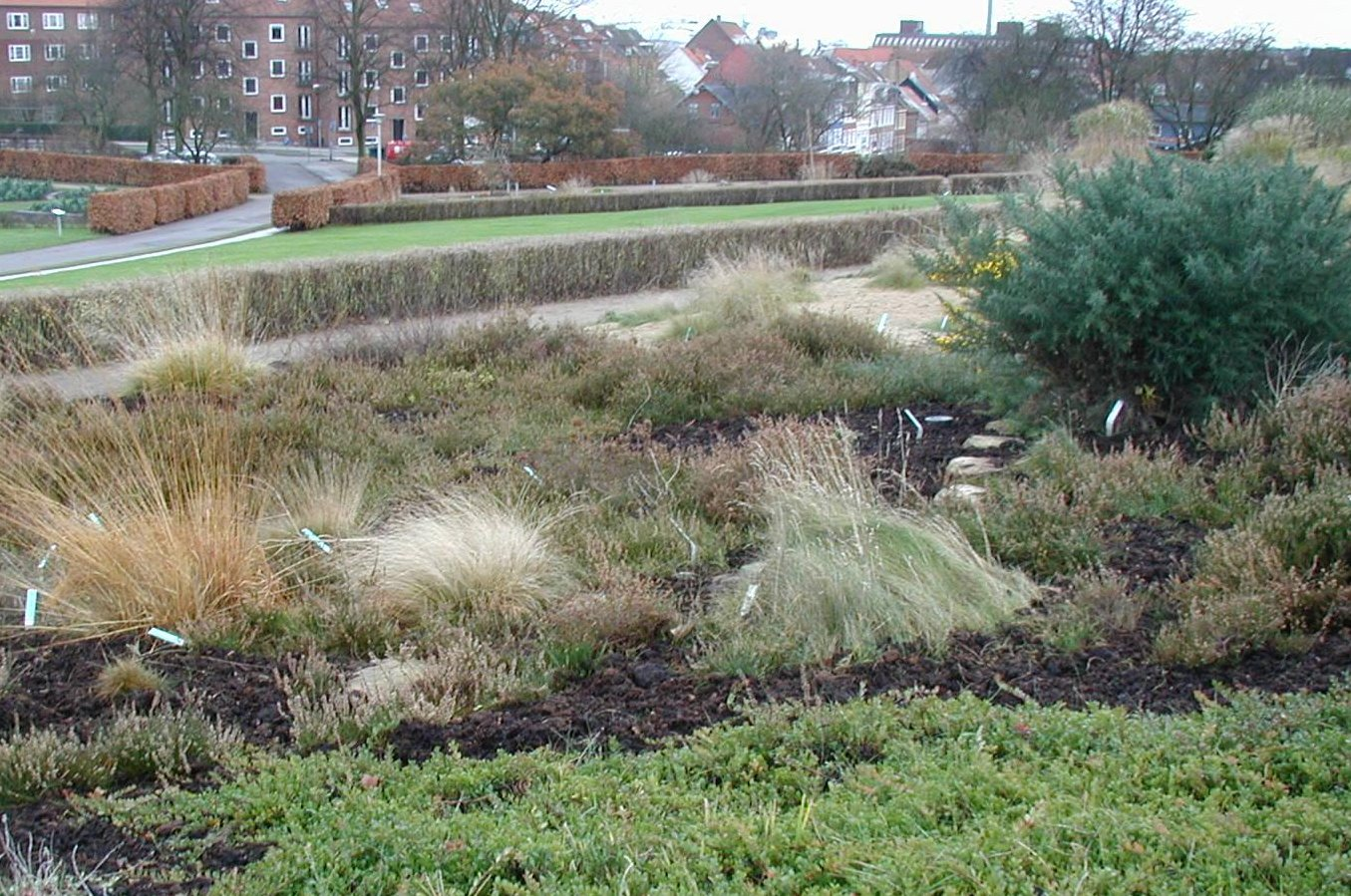 Heath habitat at the Botanical Gardens, Aarhus